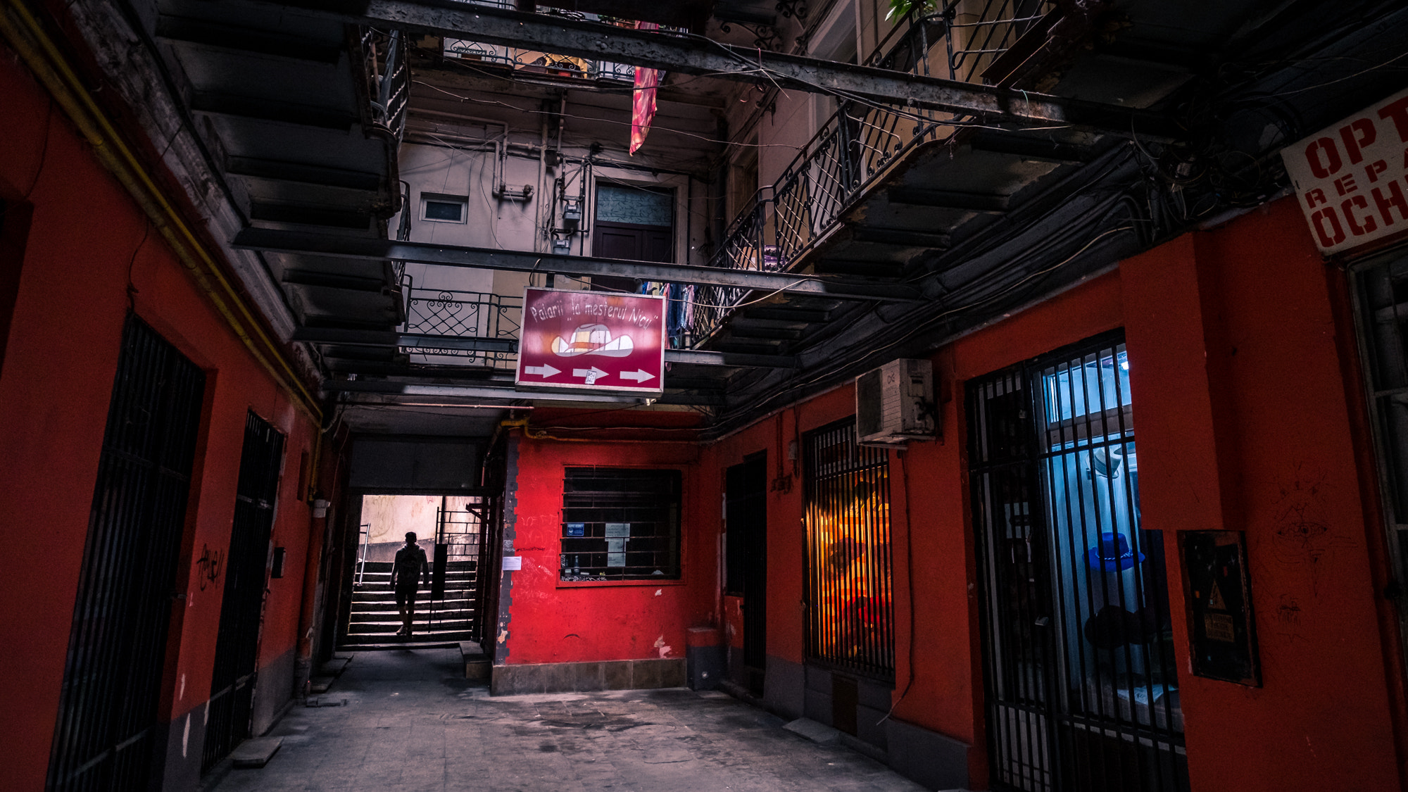 500px provided description: Check out my gallery at if you want to see more pictures. You can follow me on [#city ,#travel ,#urban ,#architecture ,#history ,#bucharest ,#historical ,#romania ,#faceless ,#passage ,#streetphotography ,#english ,#pasajul ,#englez]